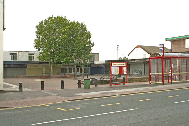 Featherstone, Shopping Precinct Station Lane